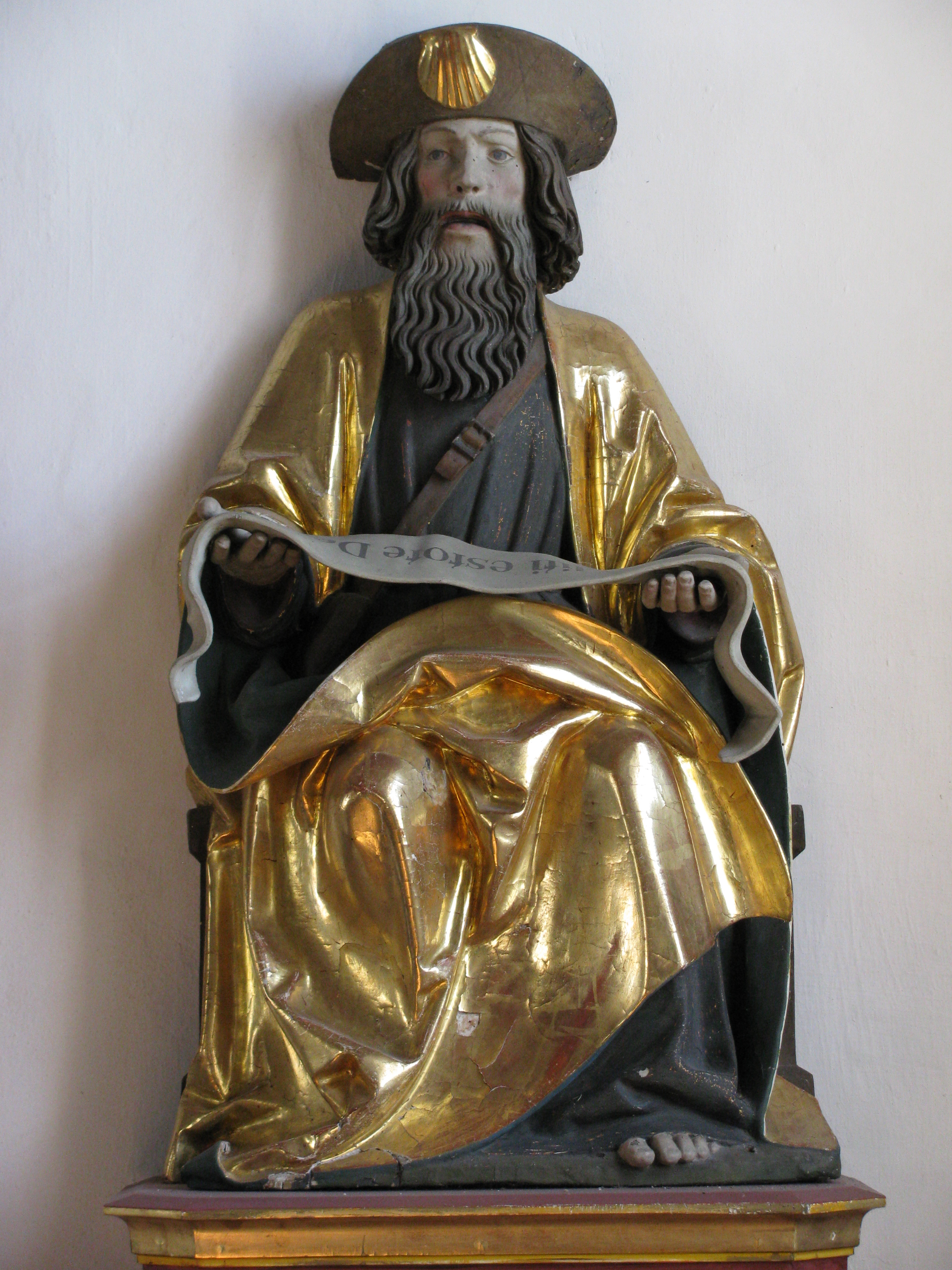 Germany - Bavaria - Lindau (district) - Nonnenhorn: Saint James (James, son of Zebedee), patron saint of the "St. Jakobus-chapel"; figurine by Johannes Ruhland (~ 1490)